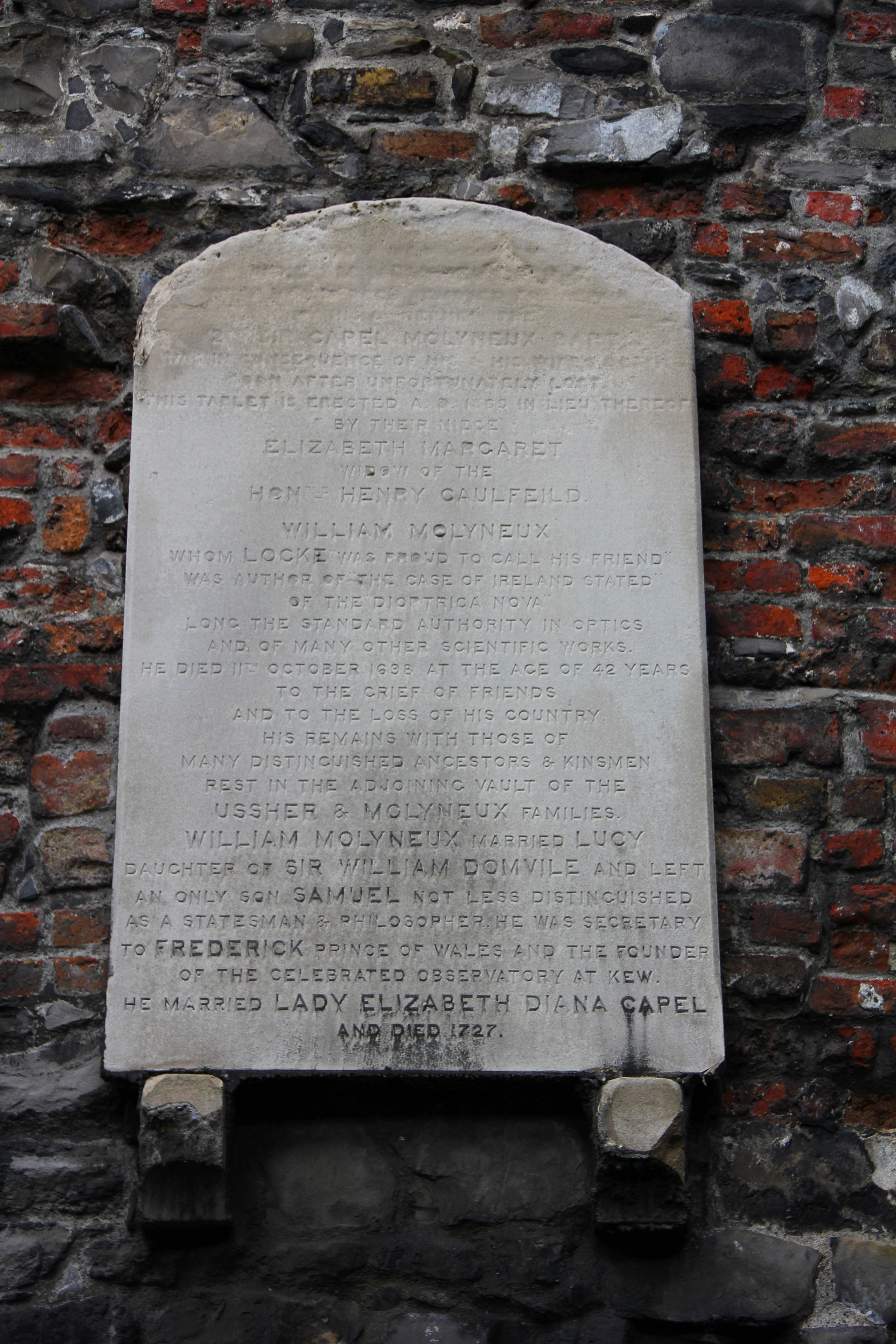 William Molyneux epitaph on the Portlester Chapel wall of the anglican St. Audoen's Church, Cornmarket, in Dublin, Ireland. William Molyneux is buried in the Portlester Chapel.